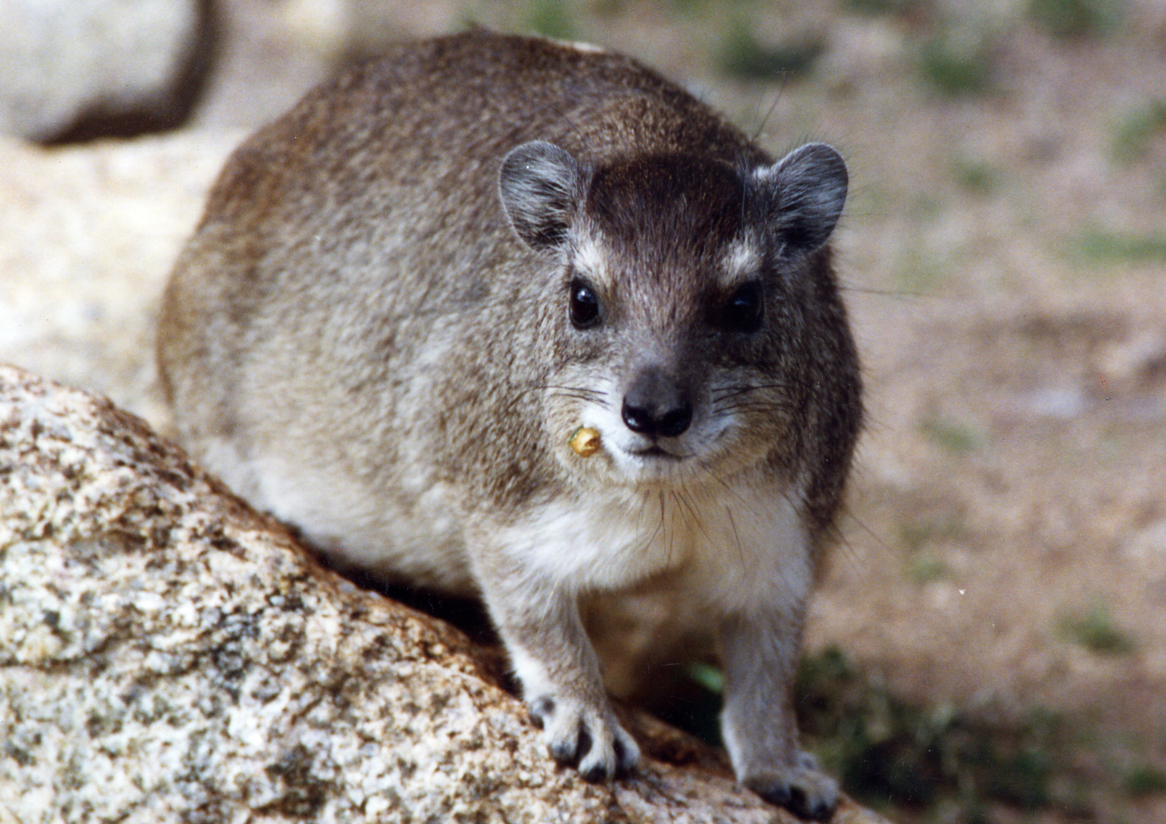 Dassie or hyrax, the closest relative to an elephant, at Serengeti National Park HQ, Tanzania. This is probably a Bush Hyrax, Heterohyrax brucei